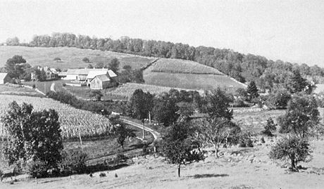 Photograph of the landscape of Weathersfield, Vermont, early 1900's, site of the farm of William Jarvis, U. S. Consul and importer of merino sheep into America. Photograph courtesy of the Vermont Historical Society